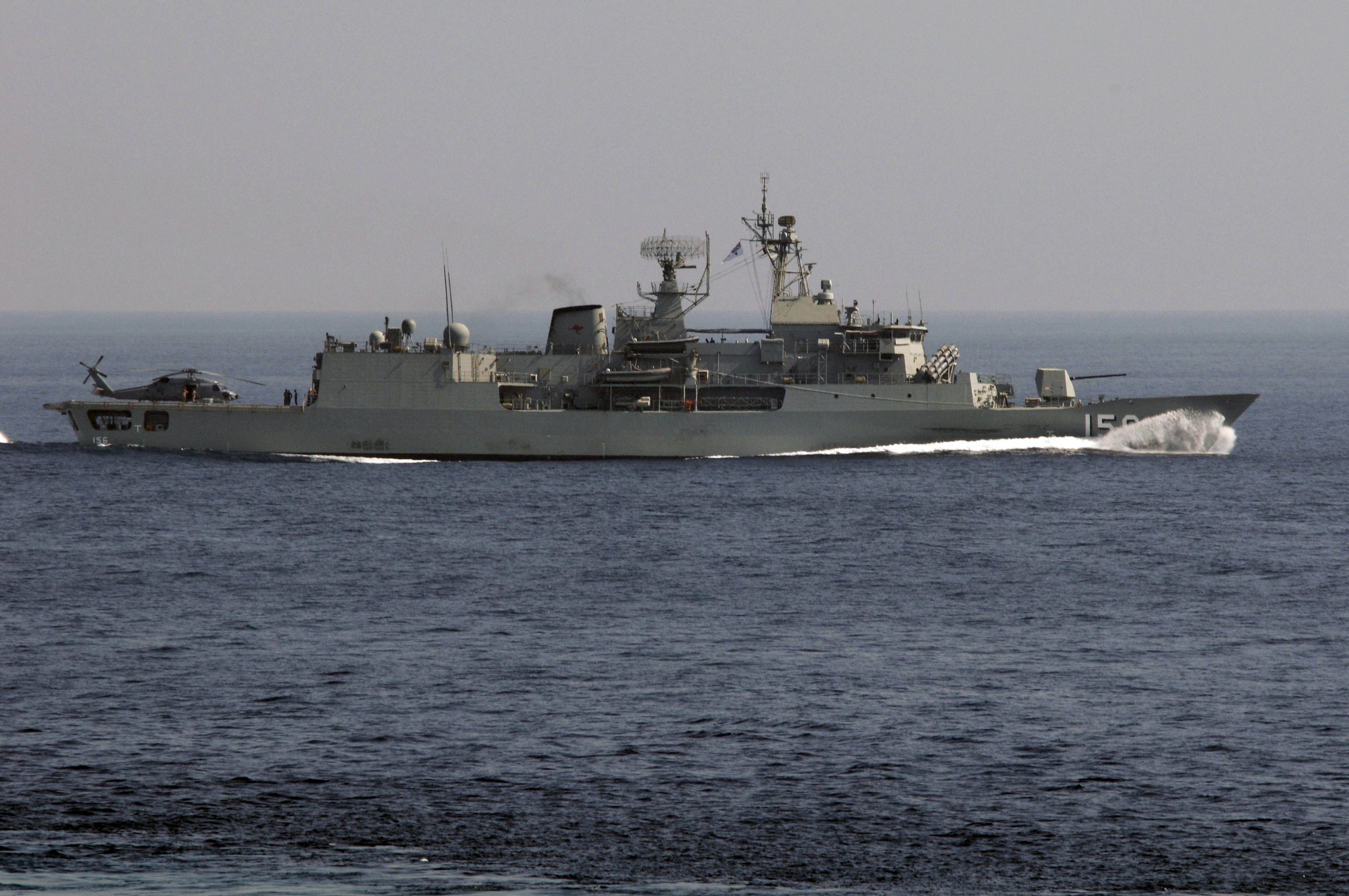 The Royal Australian Navy frigate HMAS Toowoomba (FFH-156) underway in the Gulf of Oman, 4 November 2009. The photo was taken from the U.S. Navy aircraft carrier USS Nimitz (CVN-68).